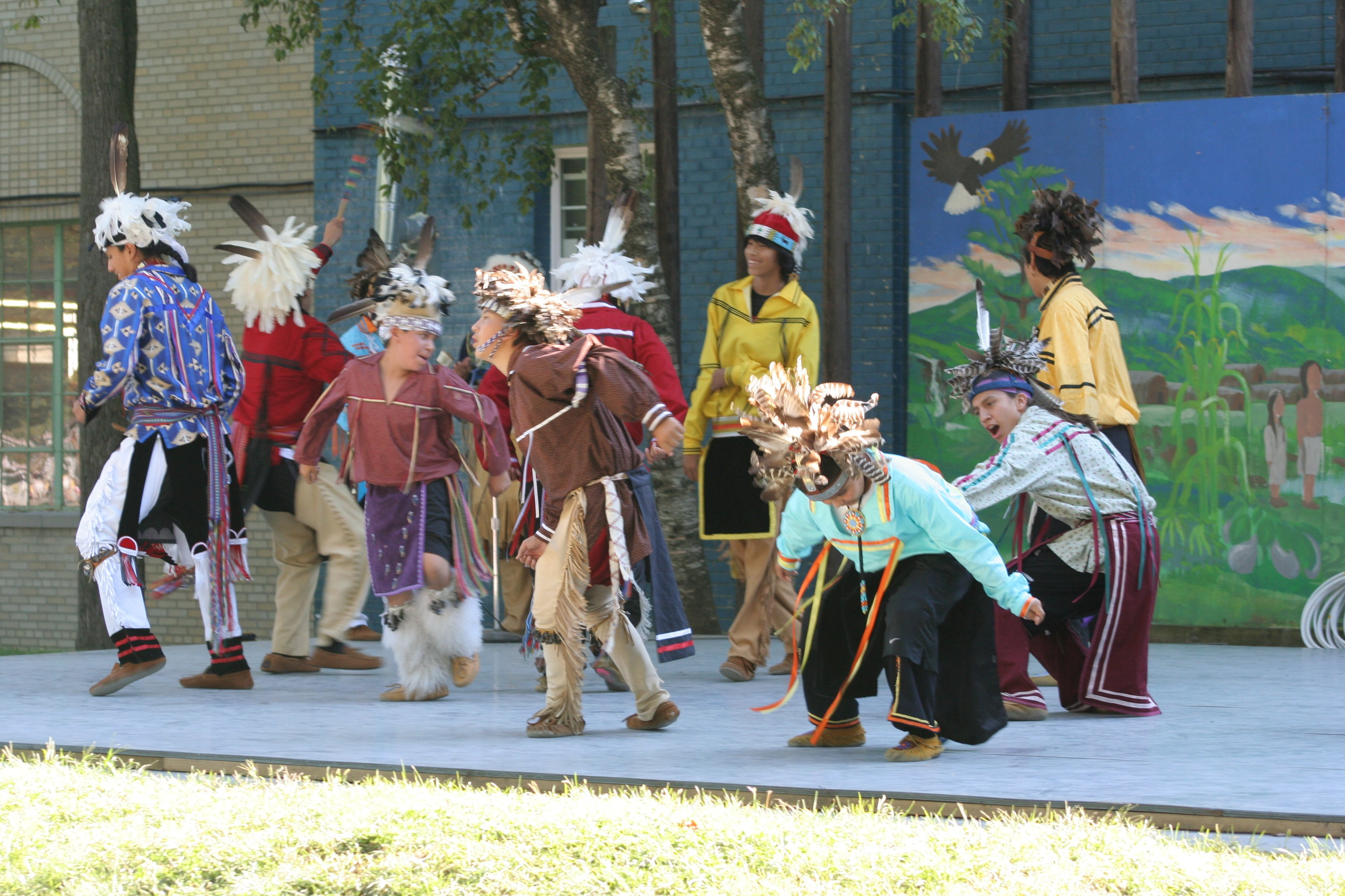 Traditional dance performance in the Iroquois Indian Village at the 2008 New York State Fair.